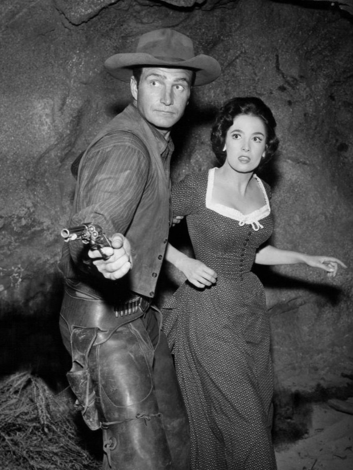 Photo of Eric Fleming and Linda Cristal from the television program Rawhide. Gil Favor (Fleming) battles to keep a Spanish countess (guest star Cristal) safe.